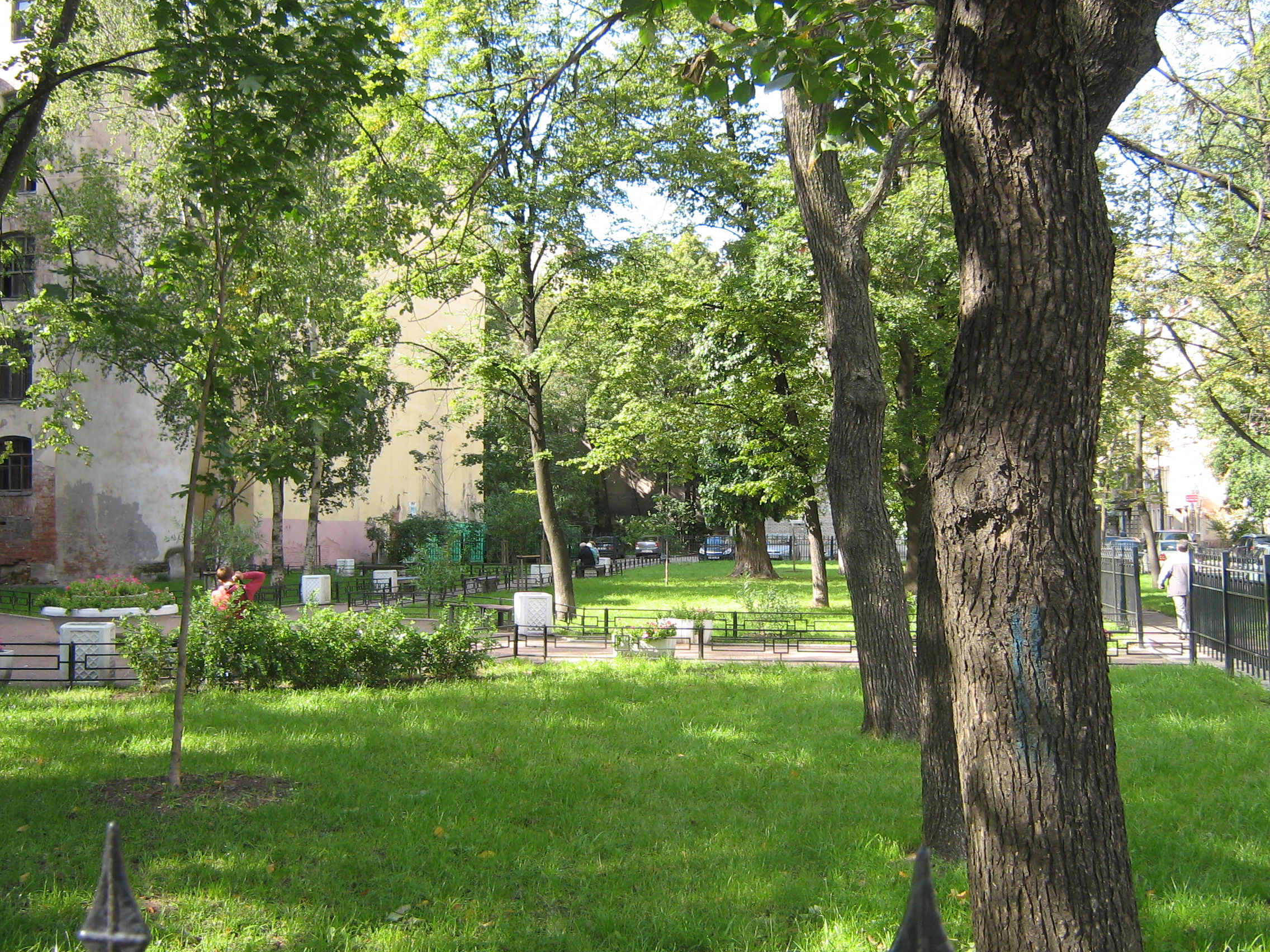 Saint Petersburg (Russia), Petrogradsky District.